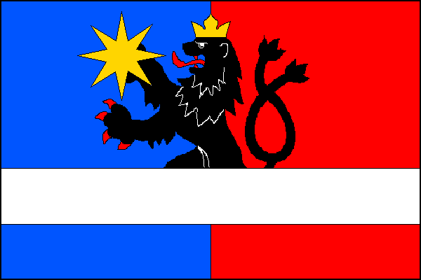 Flag of the municipal corporation Zašová (Czech Republik)